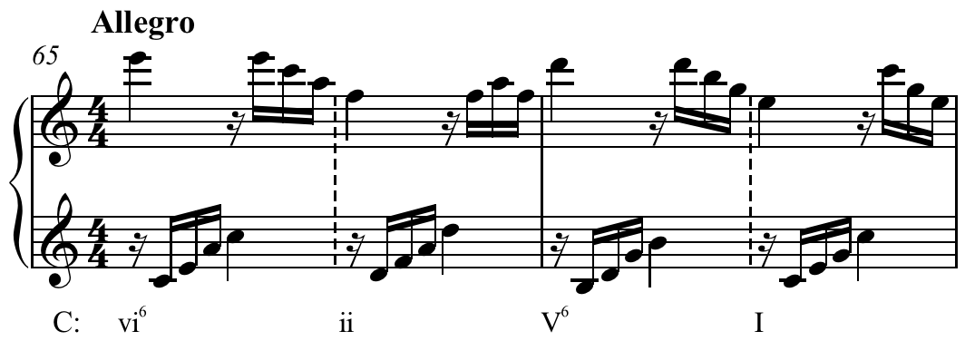 Created by Hyacinth (talk) 03:33, 24 December 2010 using Sibelius 5. vi-ii-V-I circle progression in Mozart's Sonata, K. 545.